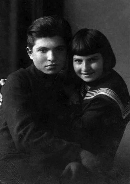 The Ukrainian-Russian pianist Emil Gilels and his sister the violinist Elizabeth Gilels.